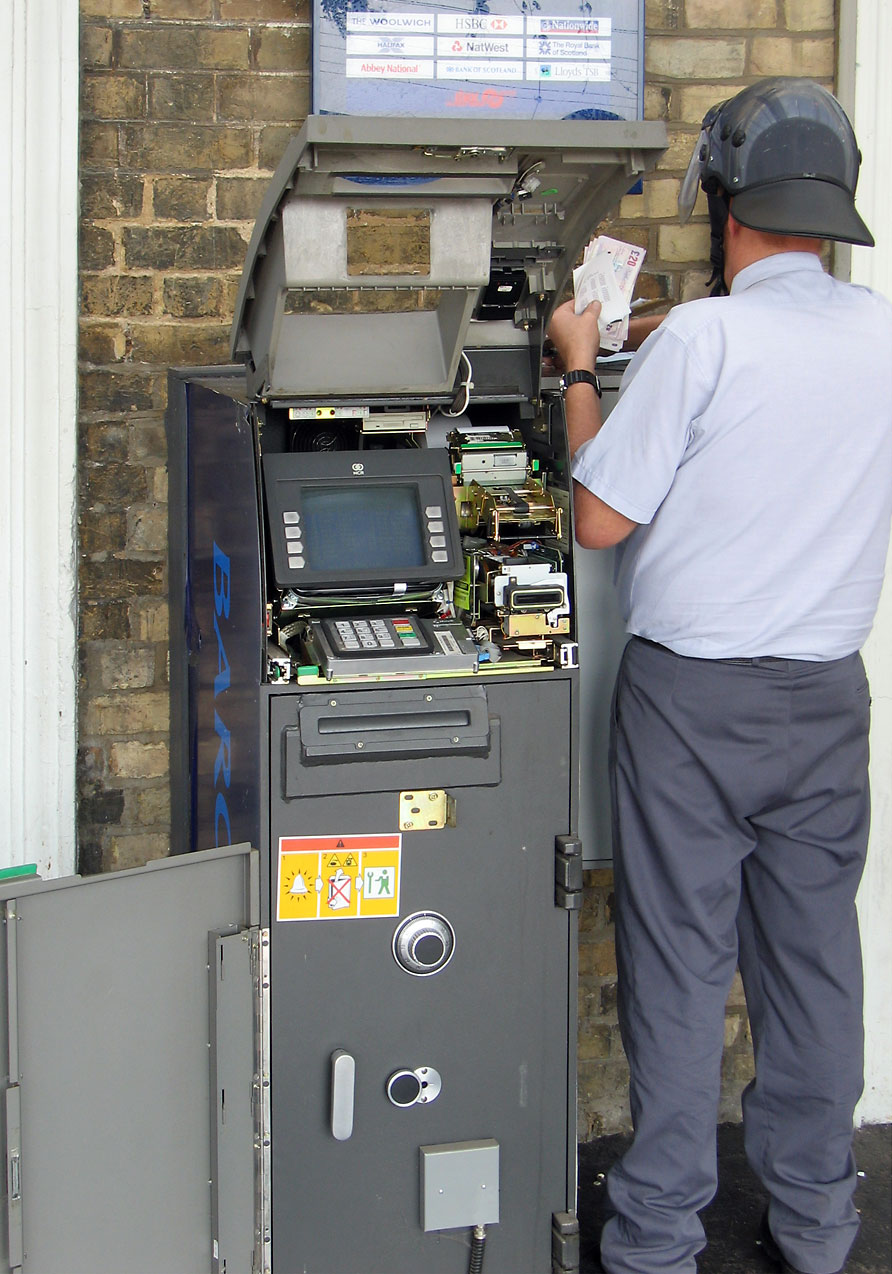 A free standing ATM machine, opened during maintainance and refilling by a security guard. Note the combination lock on the safe in the lower half of the machine that carries the store of bank notes. The top half of the machine shows many components of a ruggedised personal computer. This particular machine is at the railway station in Cambridge, England and is operated by Barclays Bank.